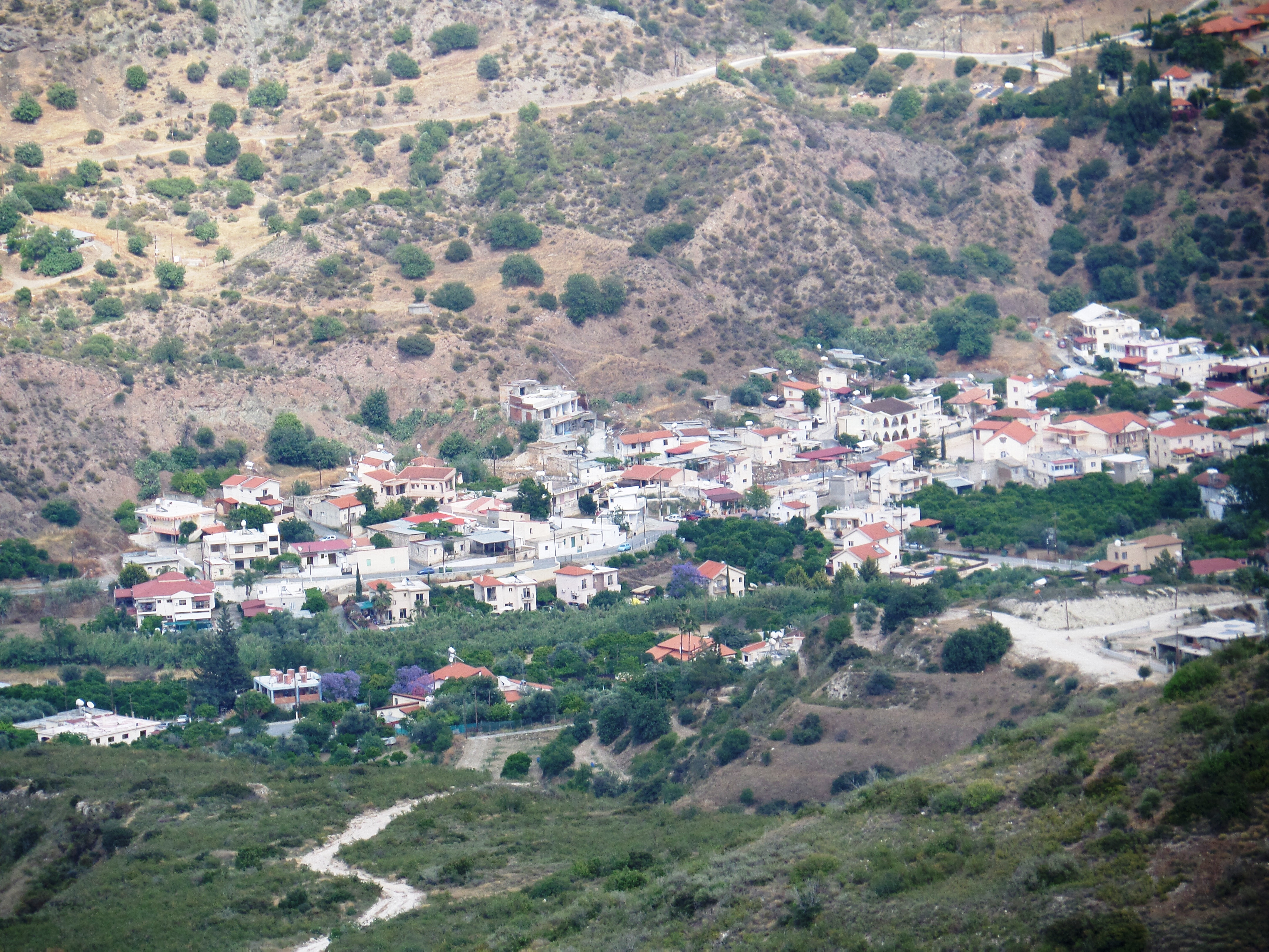 View of Akrounta.